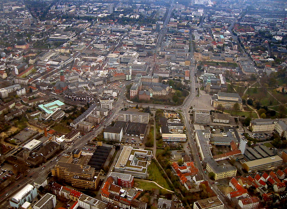 aerial photo of Darmstadt of April 2003